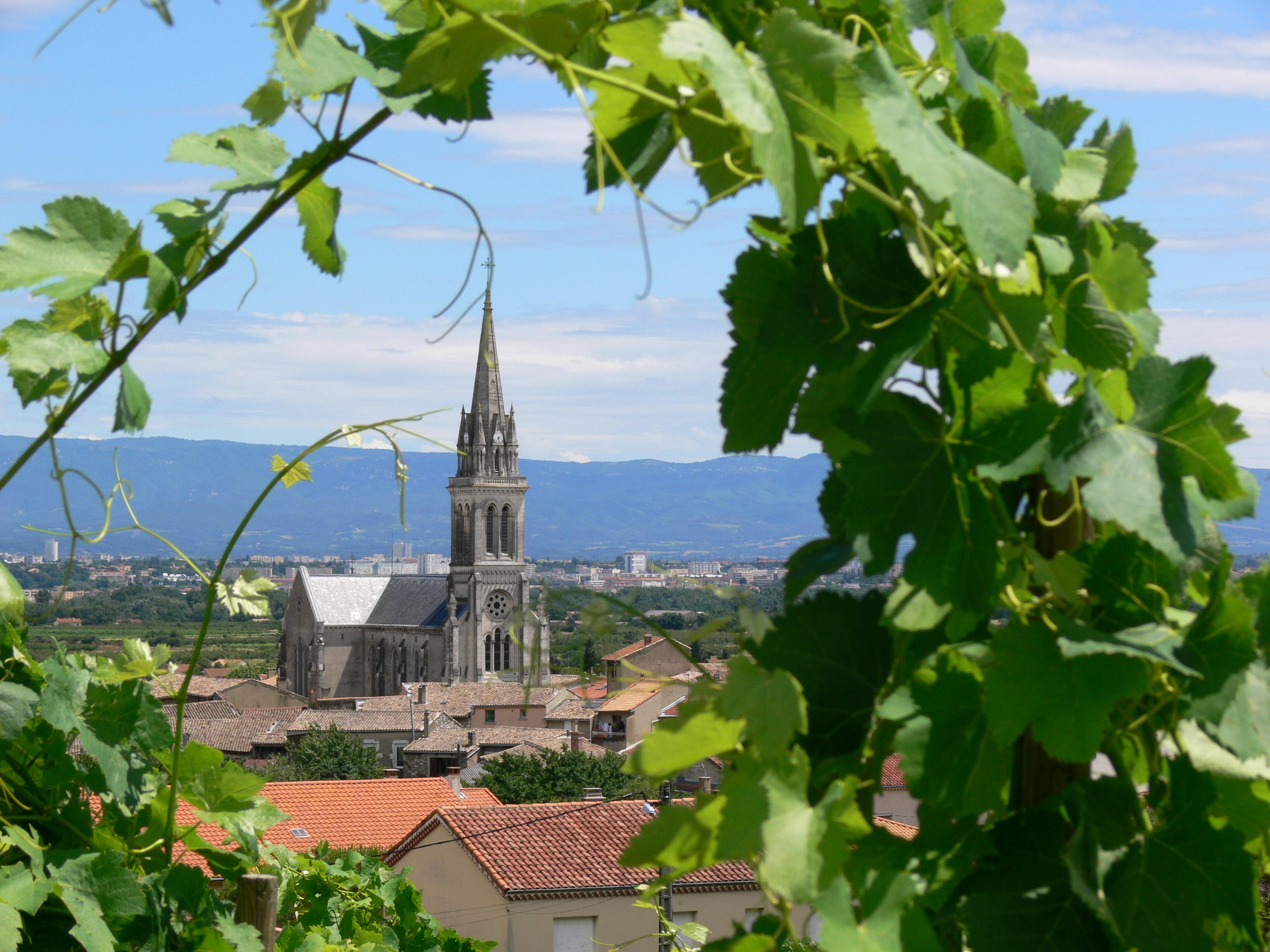 the Church of Cornas (Ardèche, France) through the vineyards